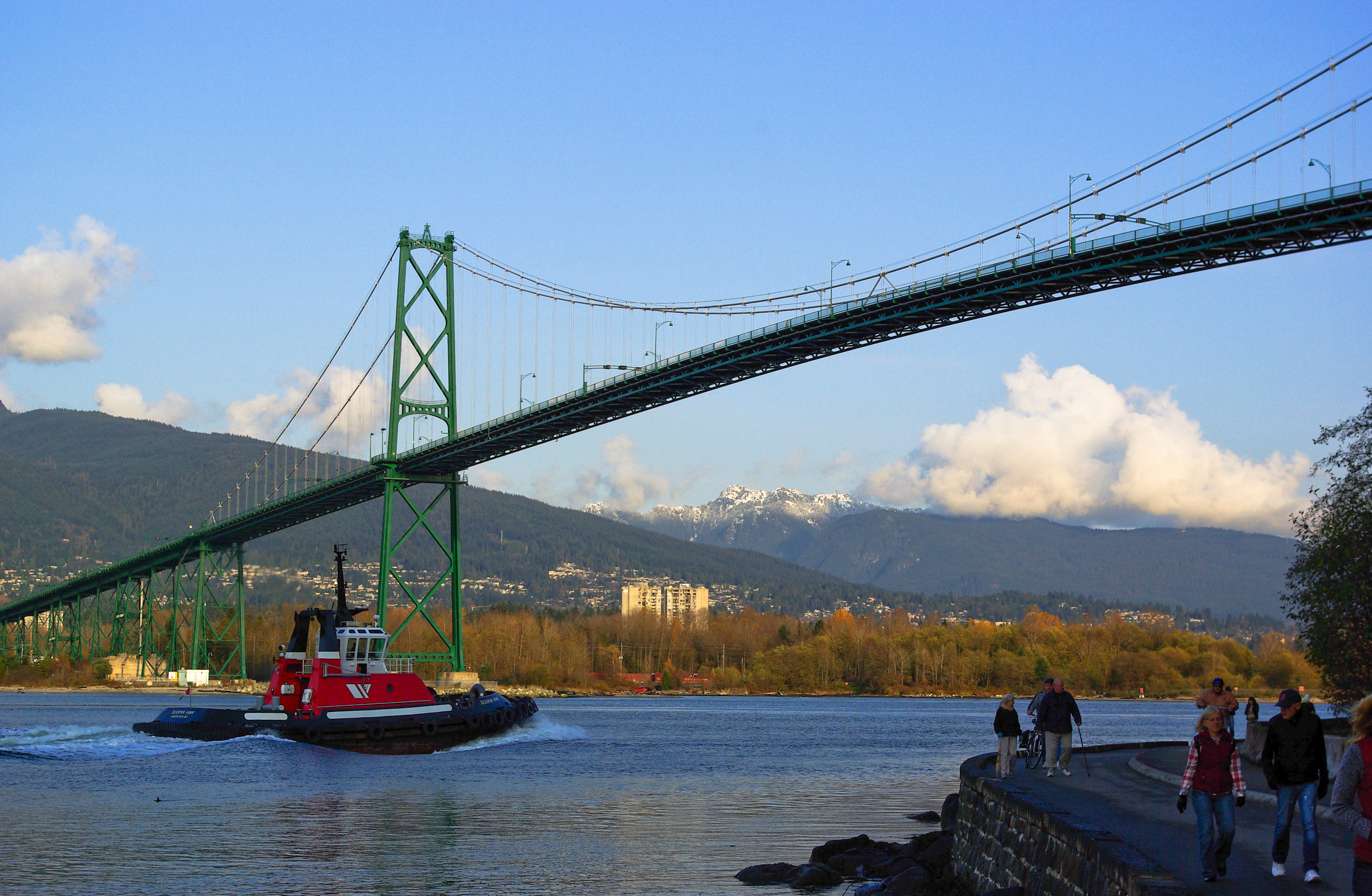 The Lions Gate Bridge in Vancouver, Canada